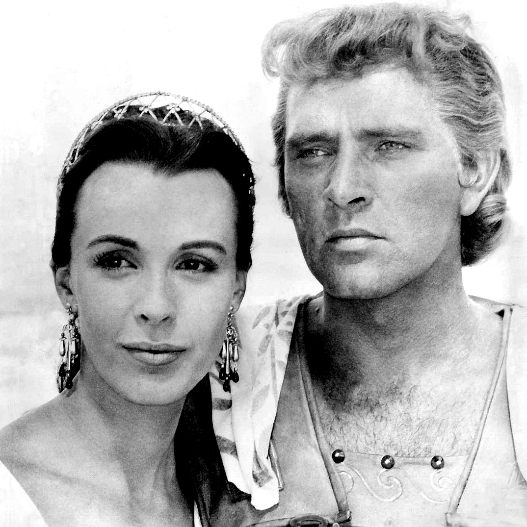 Photo of Claire Bloom Richard Burton from Alexander the Great